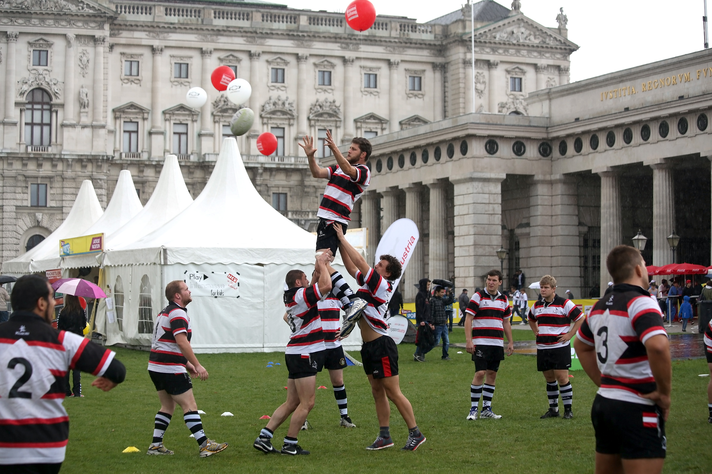 Austria's Rugby football national team at the Tag des Sports (Day of Sports) 2013 on Heldenplatz in Vienna, Austria.